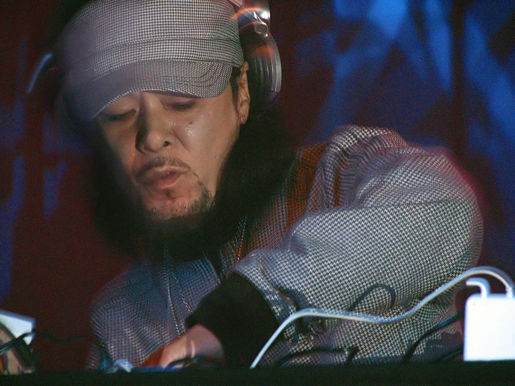 DJ Krush at Commodore Ballroom in Vancouver